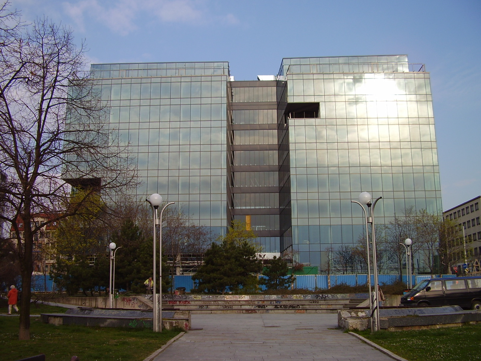 Park One, Bratislava city centre